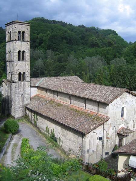 Pieve Loppia